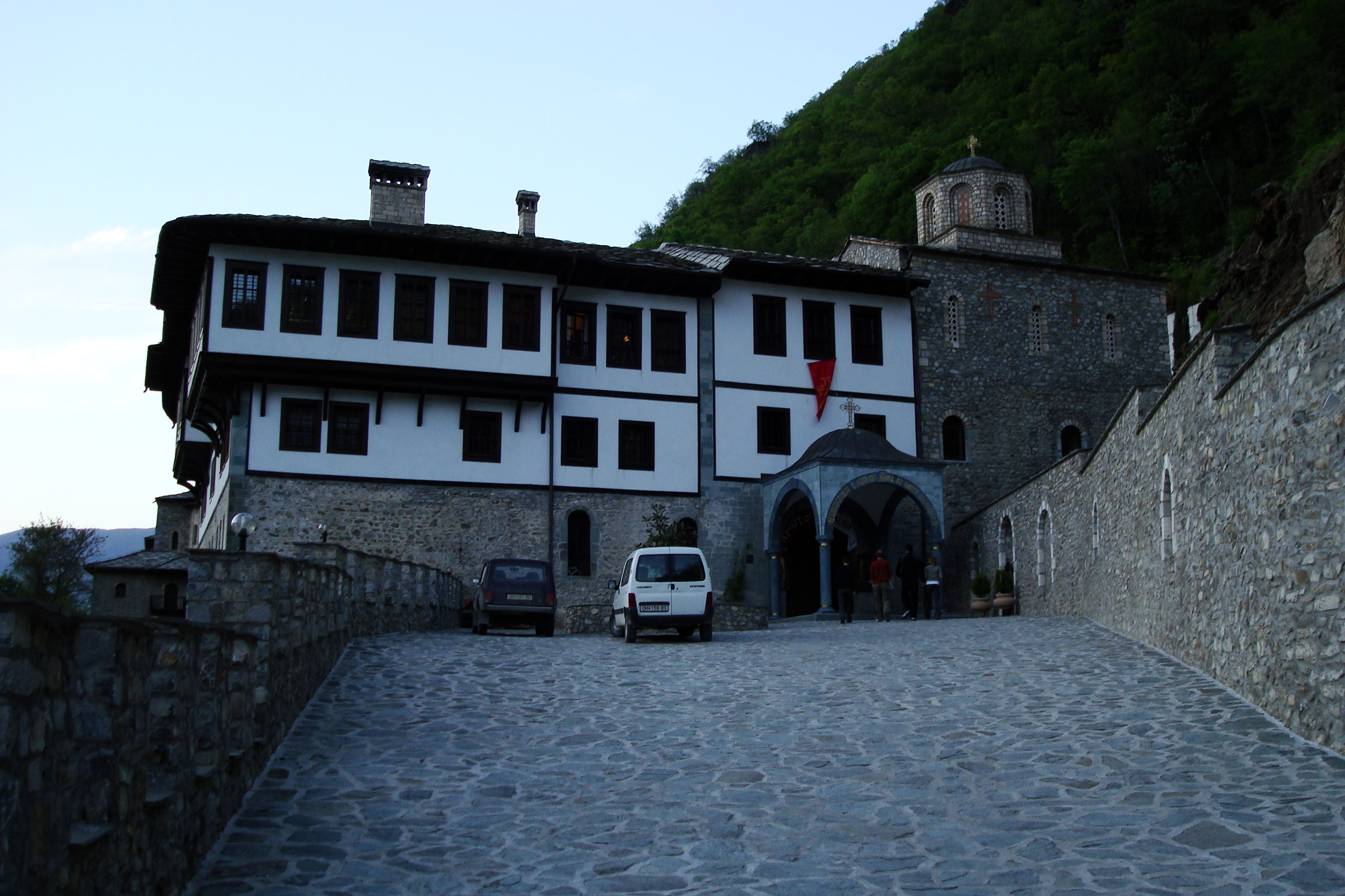 Monastery "Sveti Jovan Bigorski", Macedonia.